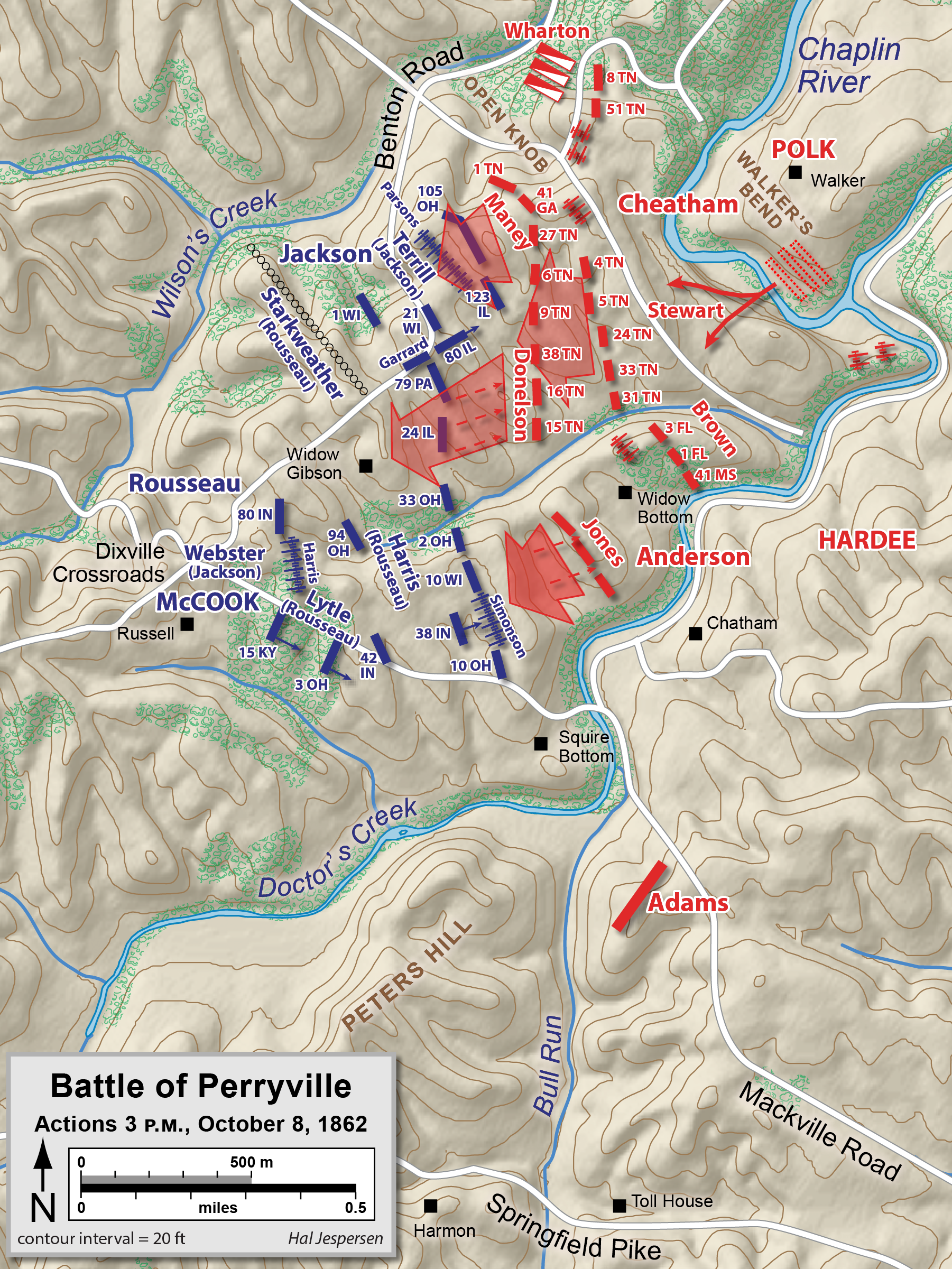 Map of the Battle of Perryville of the American Civil War, drawn in Adobe Illustrator CC by Hal Jespersen. Graphic source file is available at http:/